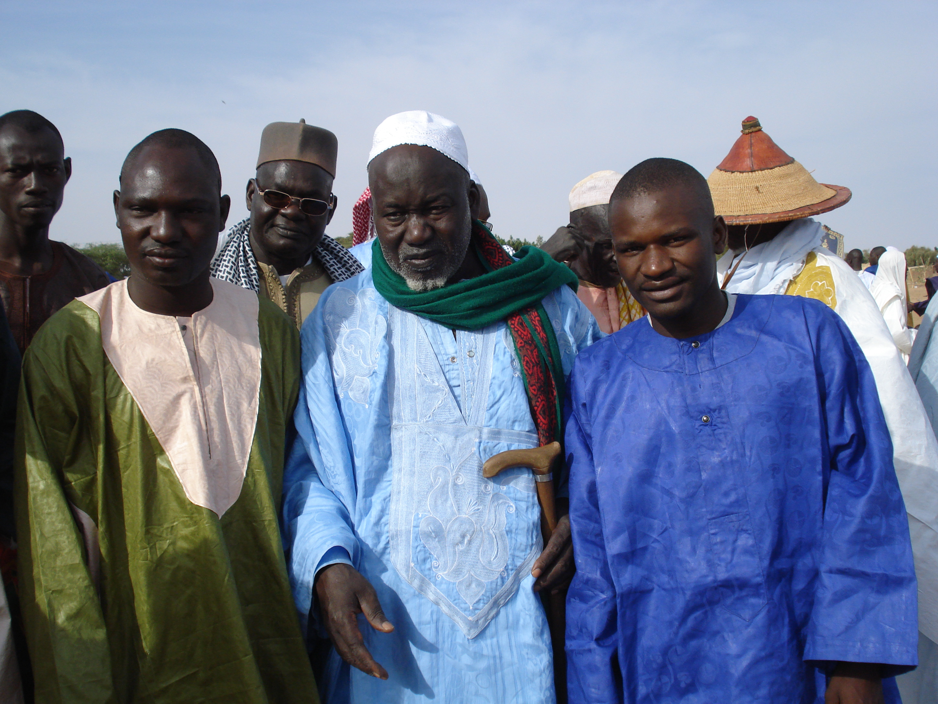 text